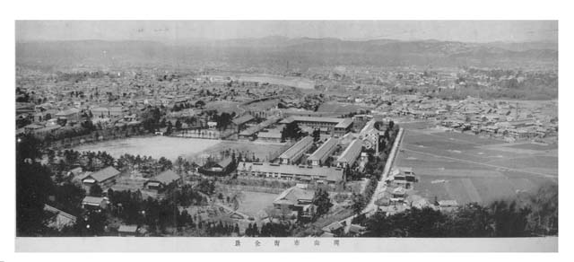 Panorama view of Okayama city from Misaoyama Hill to west.